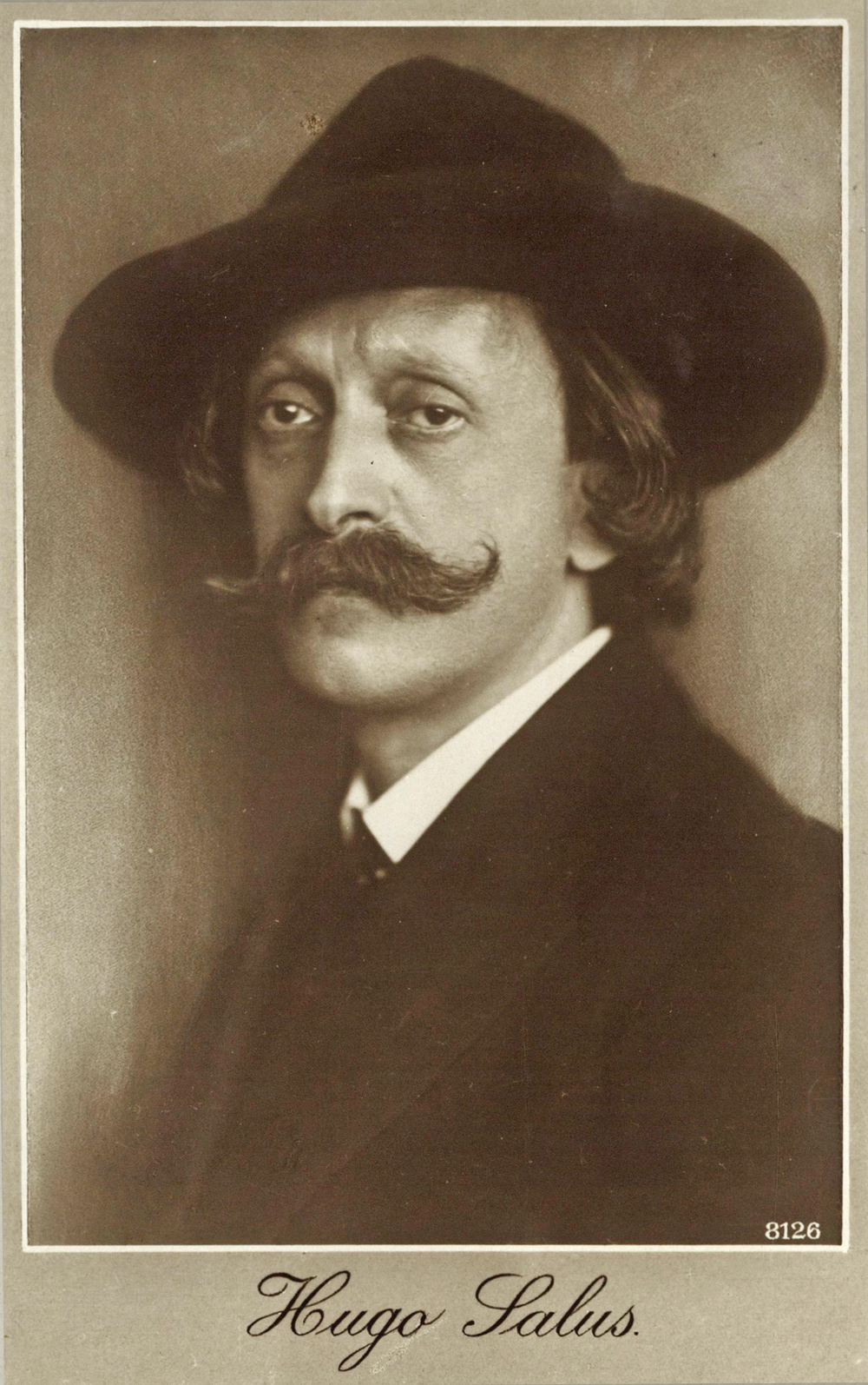 Picture of Hugo Salus